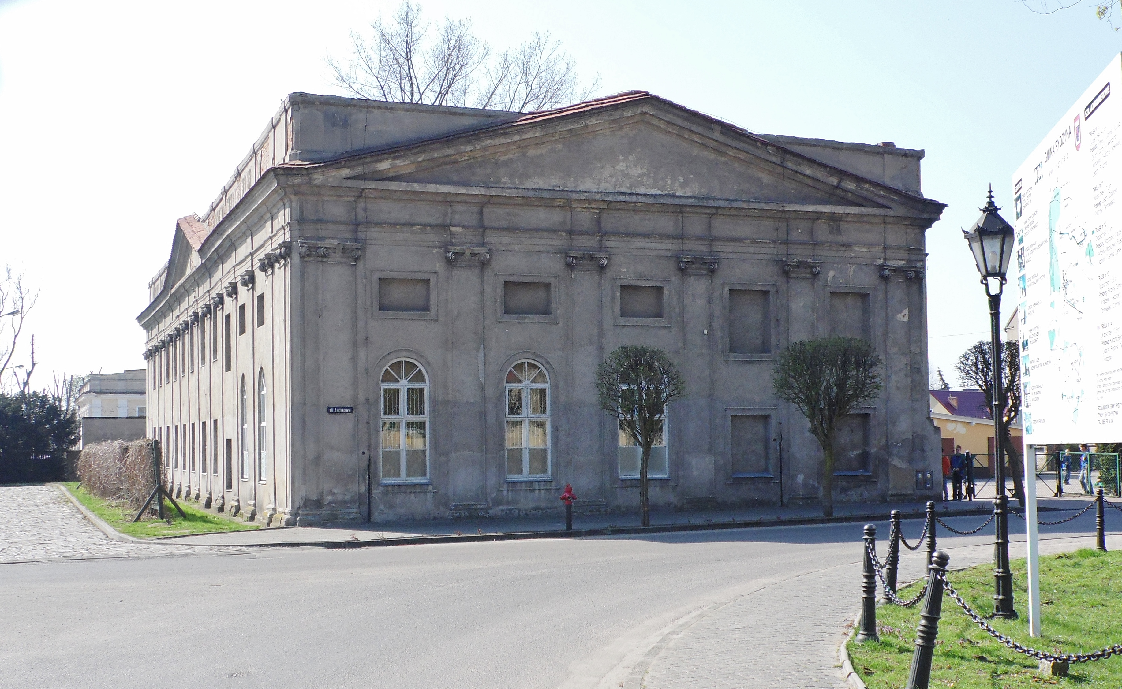 Piarist boarding school (now School) of 1777, the twentieth century (p. Mon. - E.) Rydzyna, ul. Castle 3 / Poland